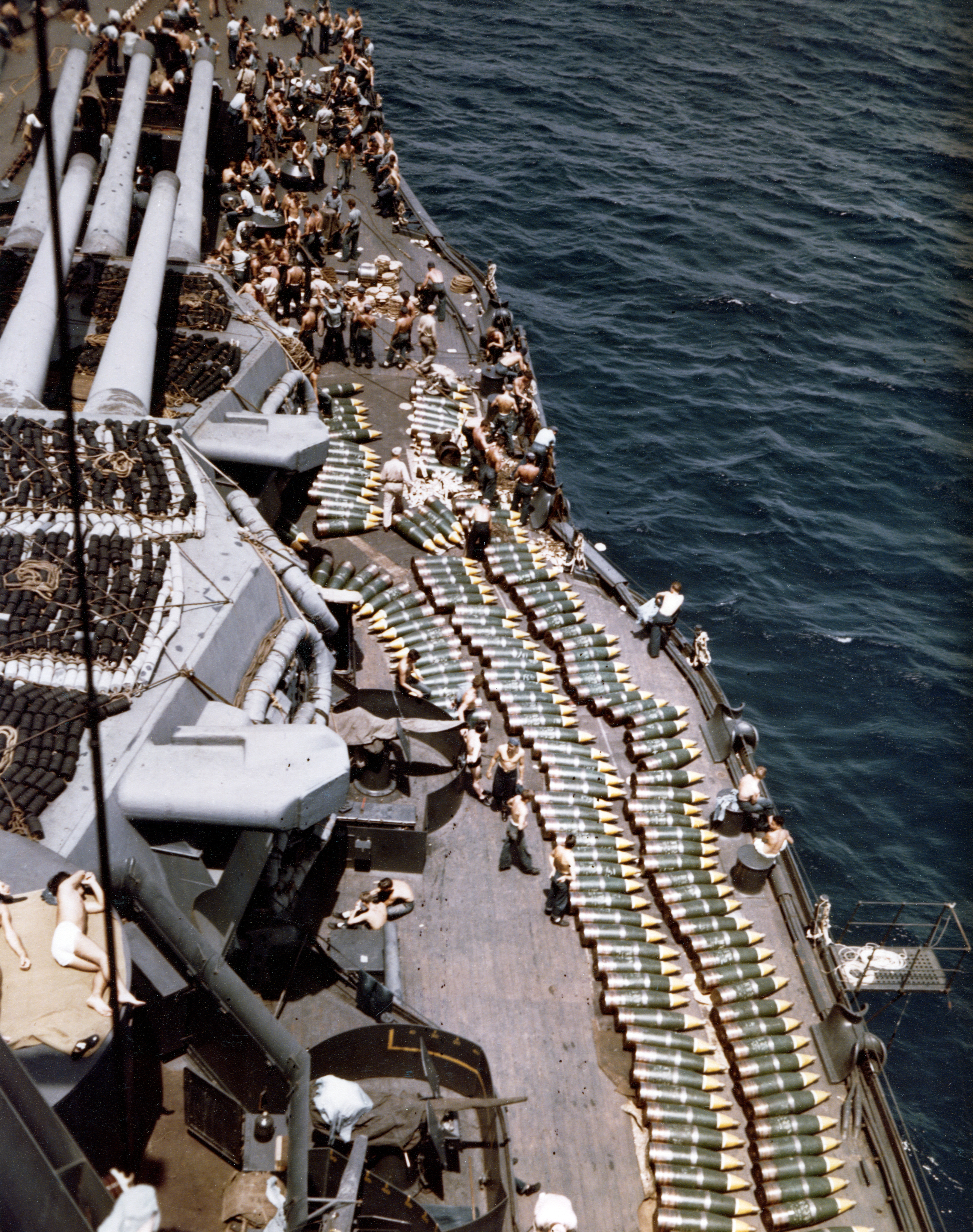 14-inch (35.6 cm) projectiles on deck of the U.S. Navy battleship USS New Mexico (BB-40), while the battleship was replenishing her ammunition supply prior to the invasion of Guam, July 1944. The photograph looks forward on the starboard side, with triple 14"/50 gun turrets at left. Note floater nets stowed atop the turrets.